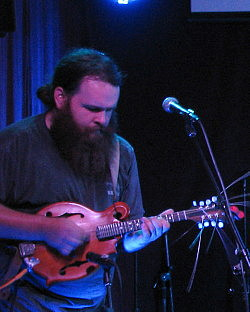 Eric Munley of the Blind Owl Band playing at The Saint in Asbury Park, NJ, on July 18, 2013. Photo by LHCollins.